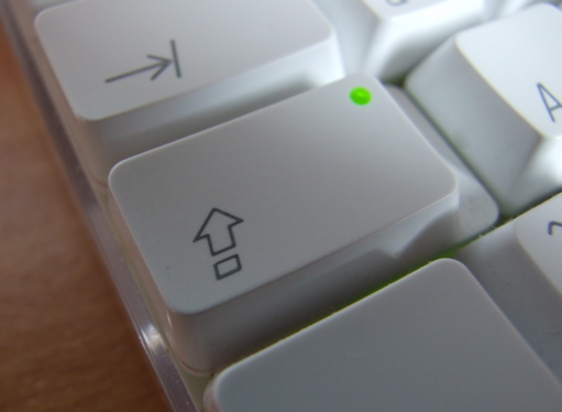 The Caps Lock key on an Apple wireless keyboard.